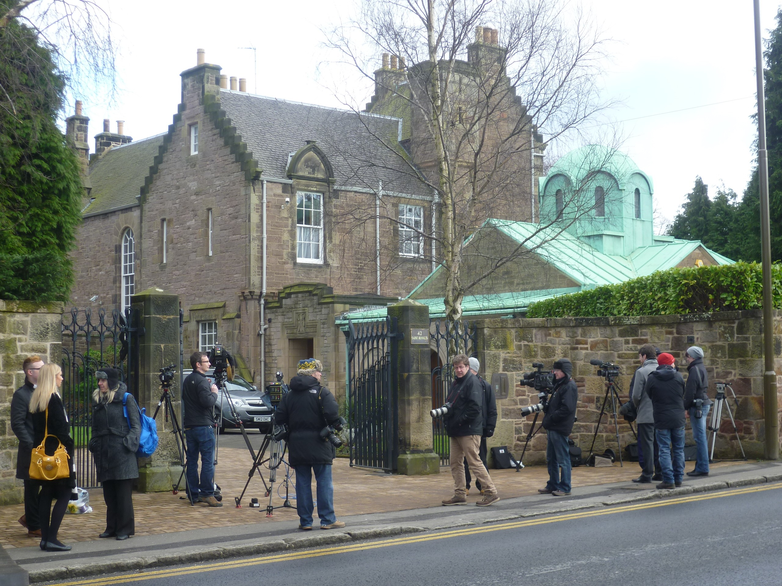 Members of the Press gather outside Cardinal O'Brien's residence in Edinburgh on the day of his resignation.